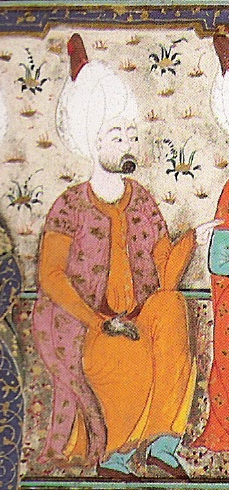 Detail of Süleymanname, folio 498b, Arrival of Gifts from Elkas Mirza: presumably grand vezier Rüstem Pasha